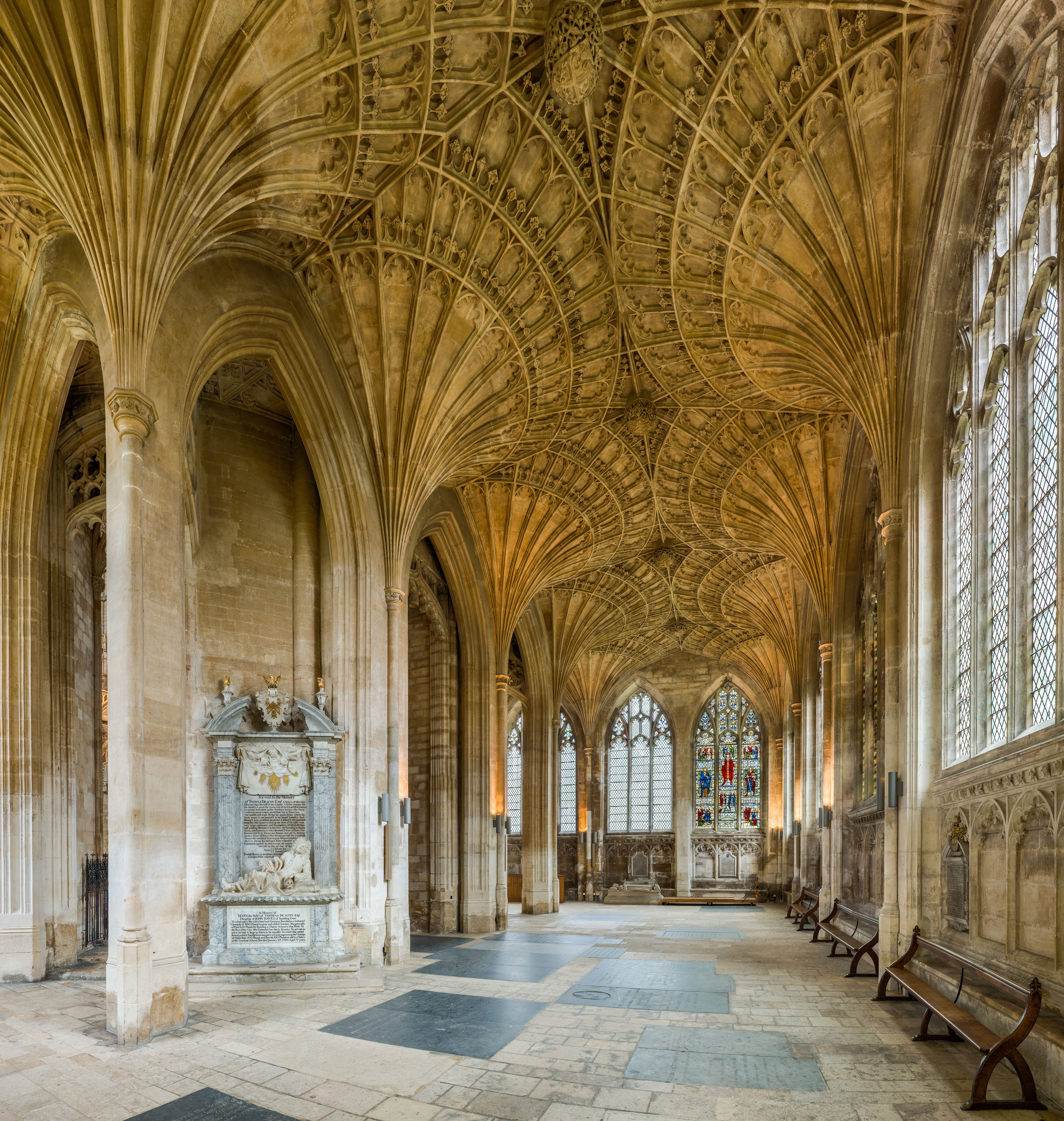 The lady chapel of Peterborough Cathedral in Cambridgeshire, England.